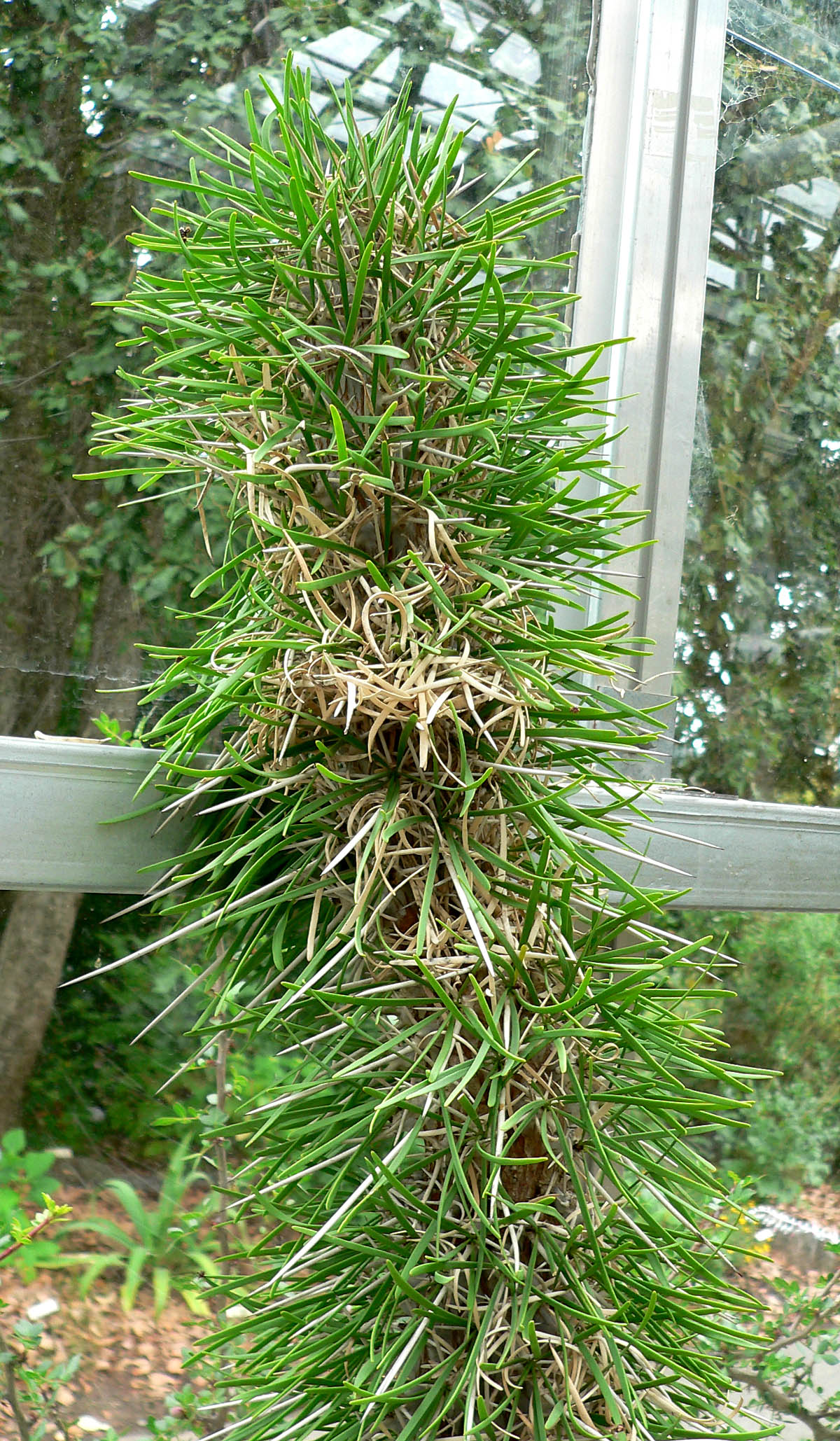 Photo of Didierea madagascariensis at the University of California Botanical Garden